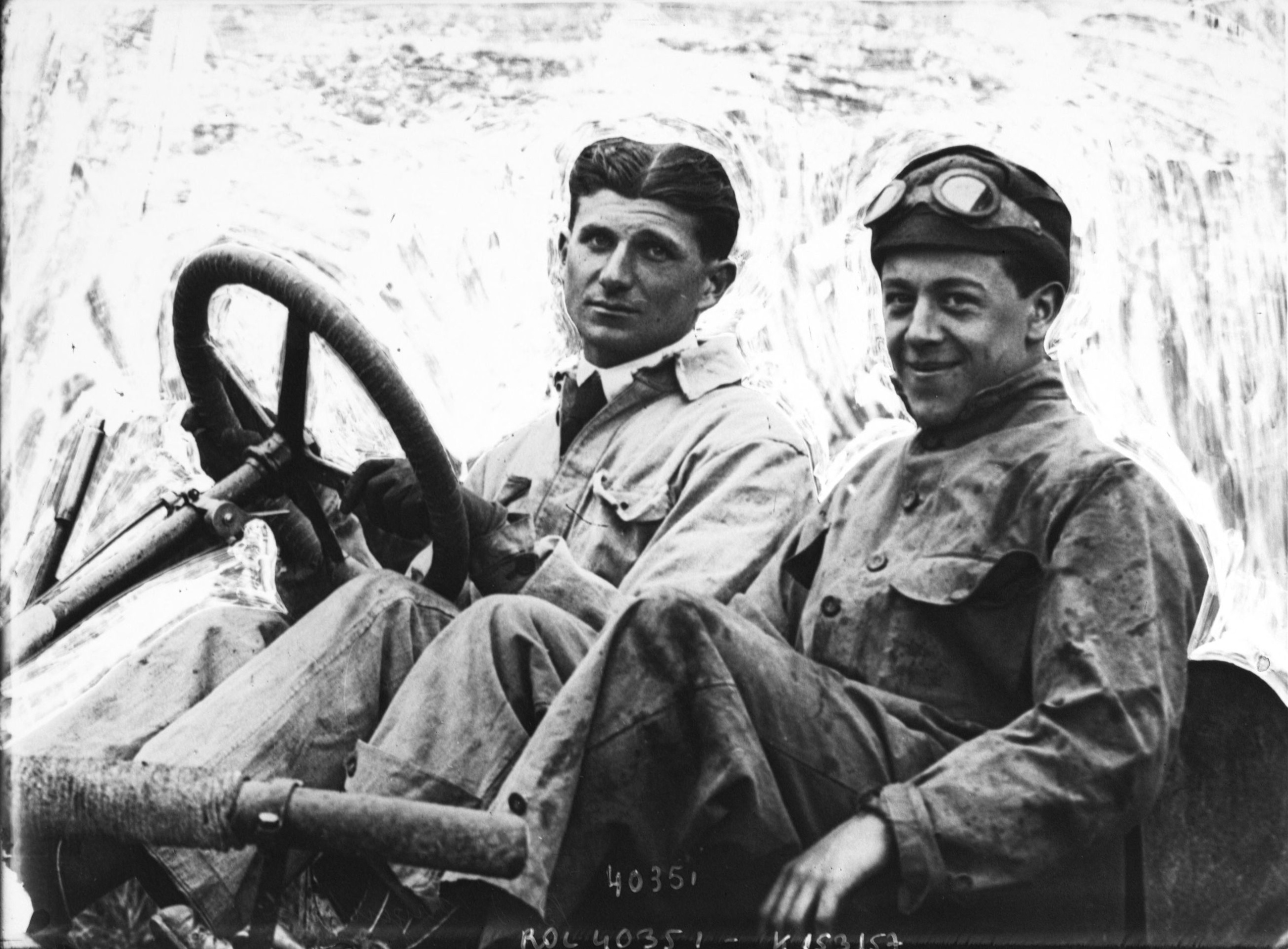 Beria d'Argentina at the 1914 French Grand Prix driving an Aquila Italiana